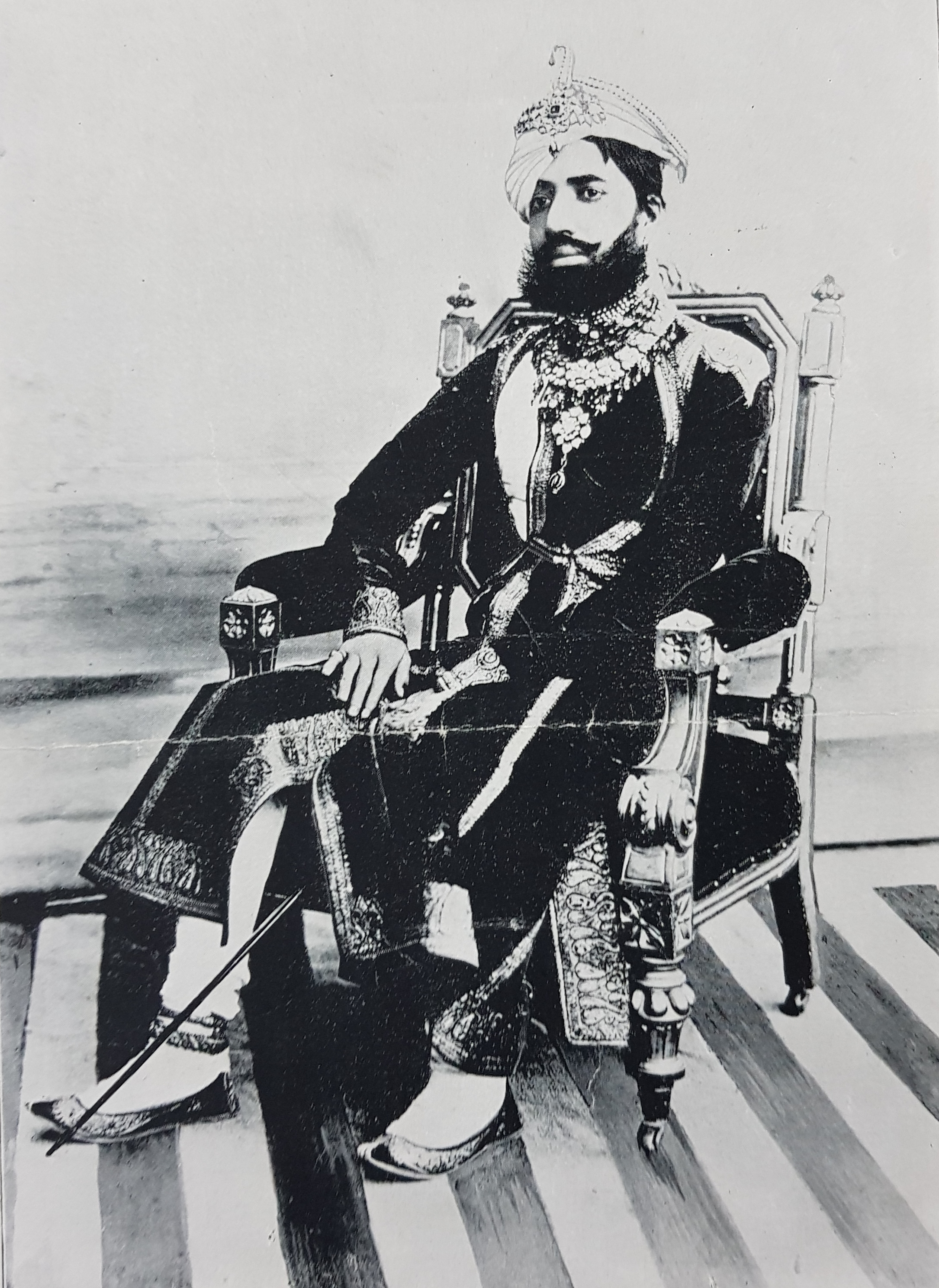 A photograph of the Raja of Sailana.